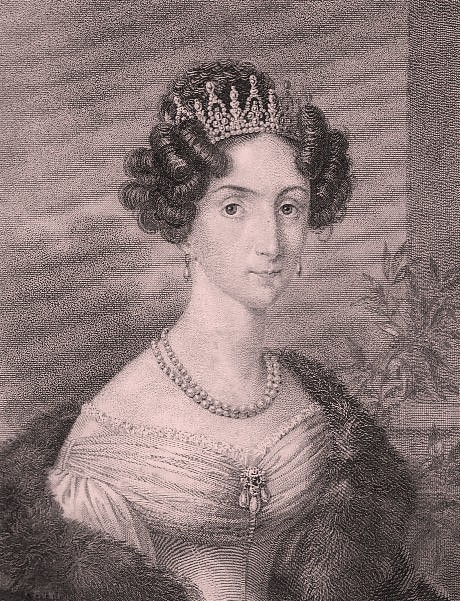 Copper engraving, portrait of Maria Amalia Friederike Augusta Karolina Ludovica Josepha Aloysia Anna Nepomucena Philippina Vincentia Franziska de Paula Franziska de Chantal (10 August 1794 - 18 September 1870), known as Amalia, Princess of Saxony